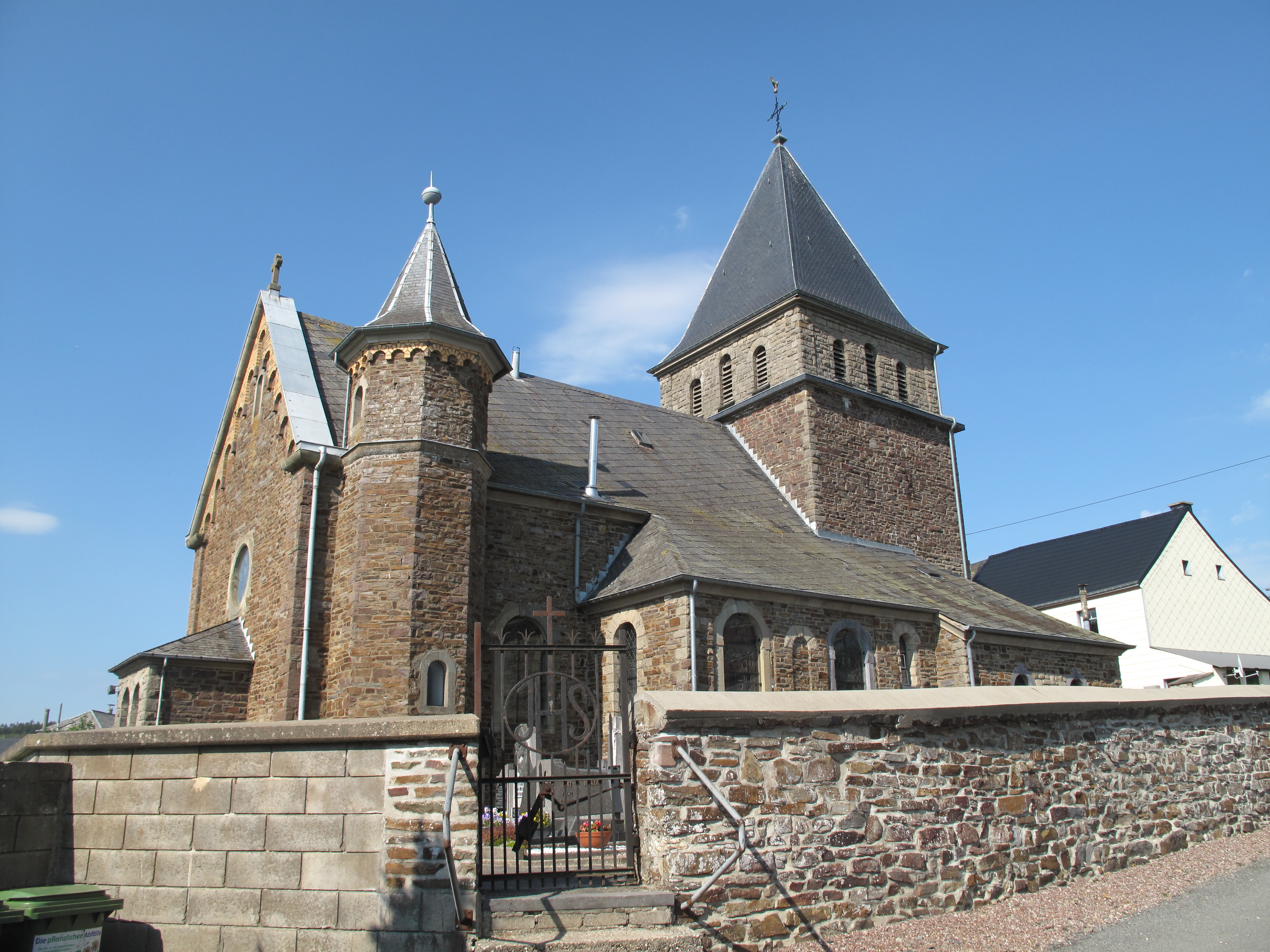 Steffihausen, church